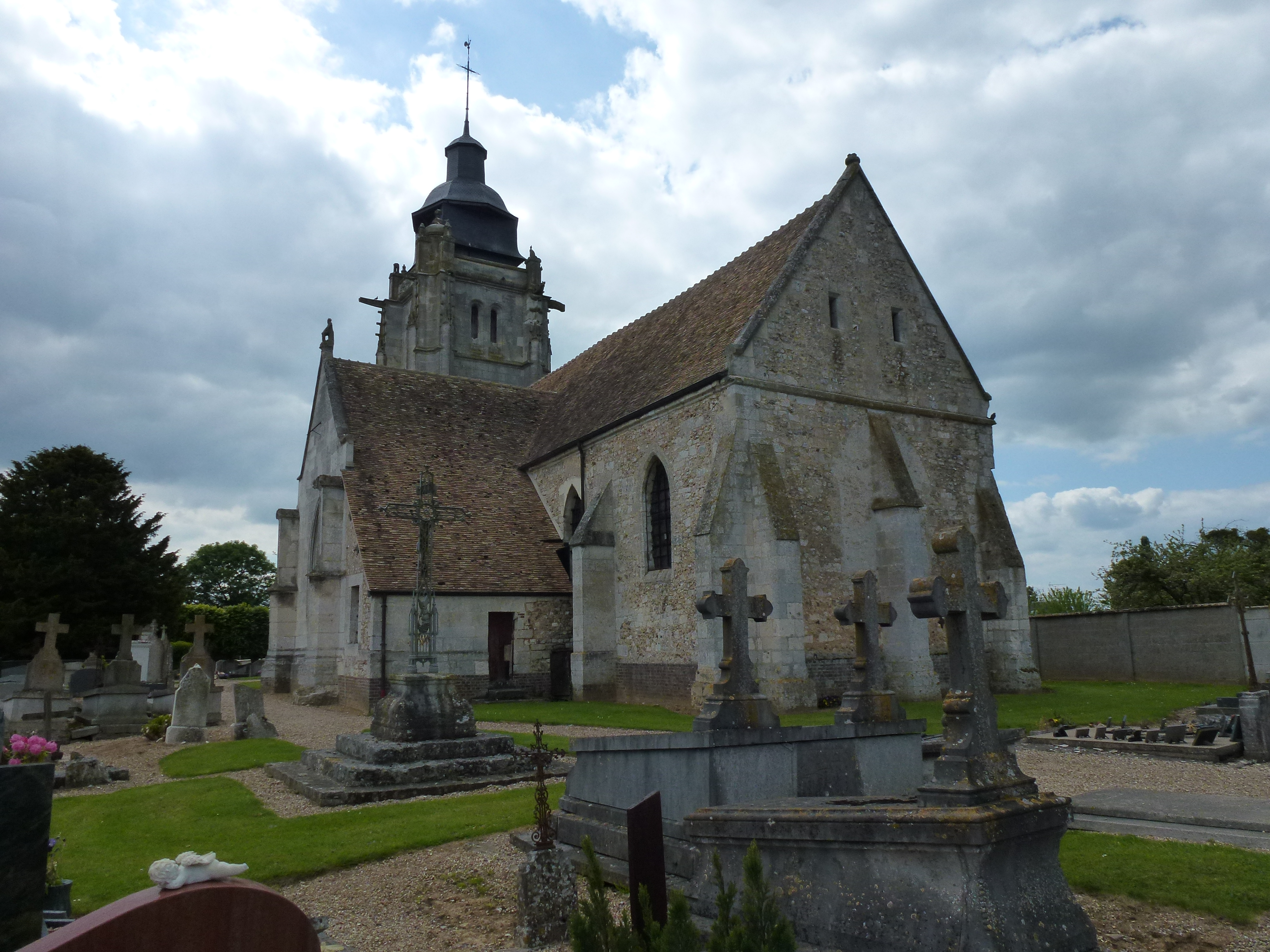 Iville (Eure, Fr) église Notre Dame